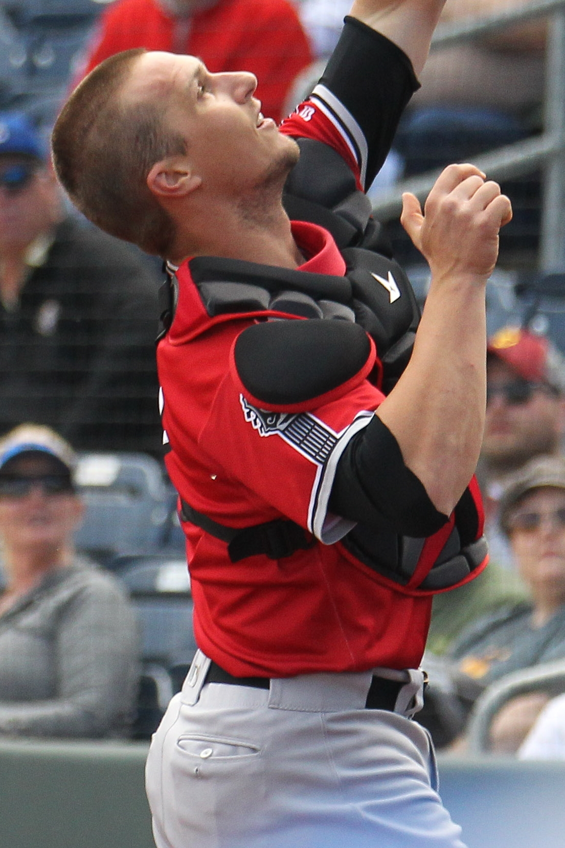 Dustin Garneau, Nashville Sounds catcher (2018) Minda Haas Kuhlmann | 2018 - USAGE INSTRUCTIONS: You are welcome to share or publish to your own site or social media account, but you MUST credit me, Minda Haas Kuhlmann. Twitter: @minda33. Instagram: minda.haas